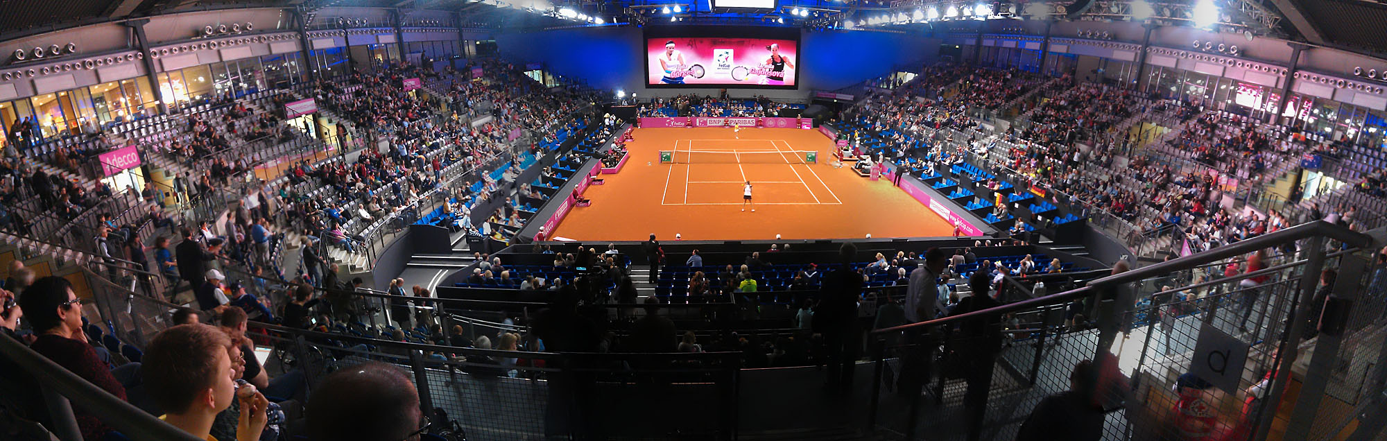 Porsche-Arena inside with Tennis setup during FedCup 2012